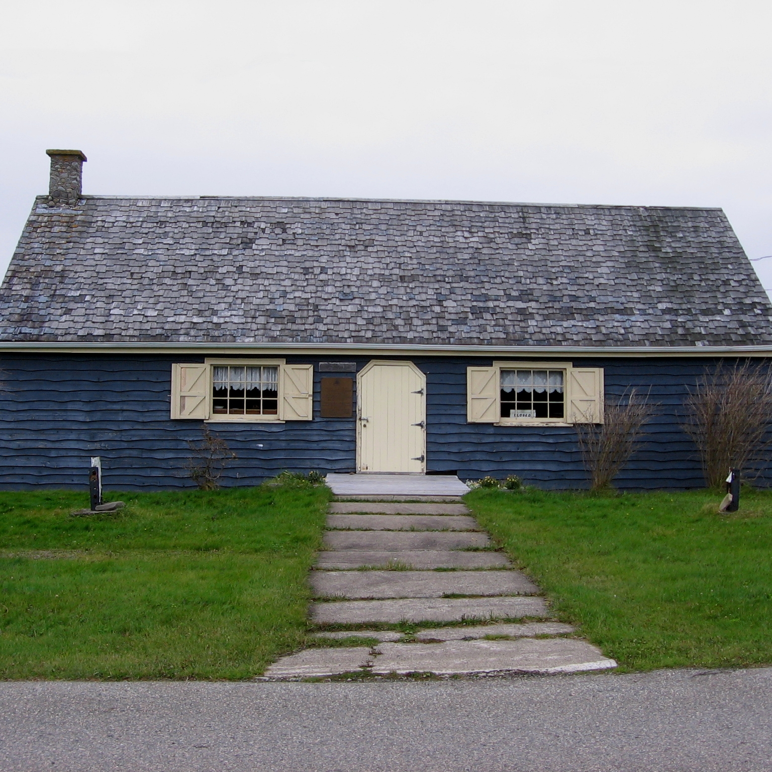 Nicholas Denys Museum, St. Peters Nova Scotia. Designed to Resemble Denys' sixteenth century dwelling and trading post, the museum was erected in 1967.